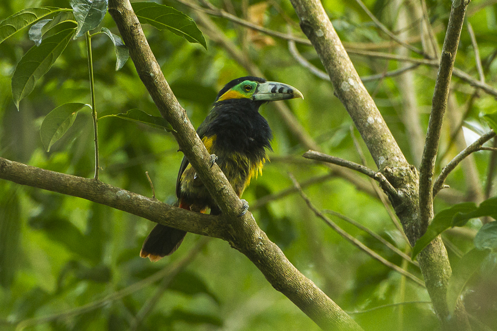 A male Spot-billed Toucanet at Reserva Ecológica de Guapi Assu (REGUA), Rio de Janeiro, Brazil.